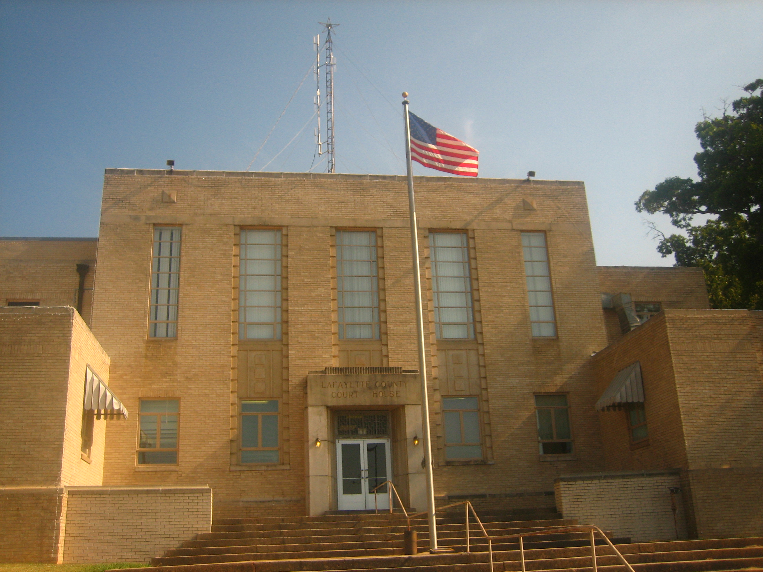 I took photo on Aug. 7, 2008.Billy Hathorn (talk) 04:54, 17 August 2008 (UTC)